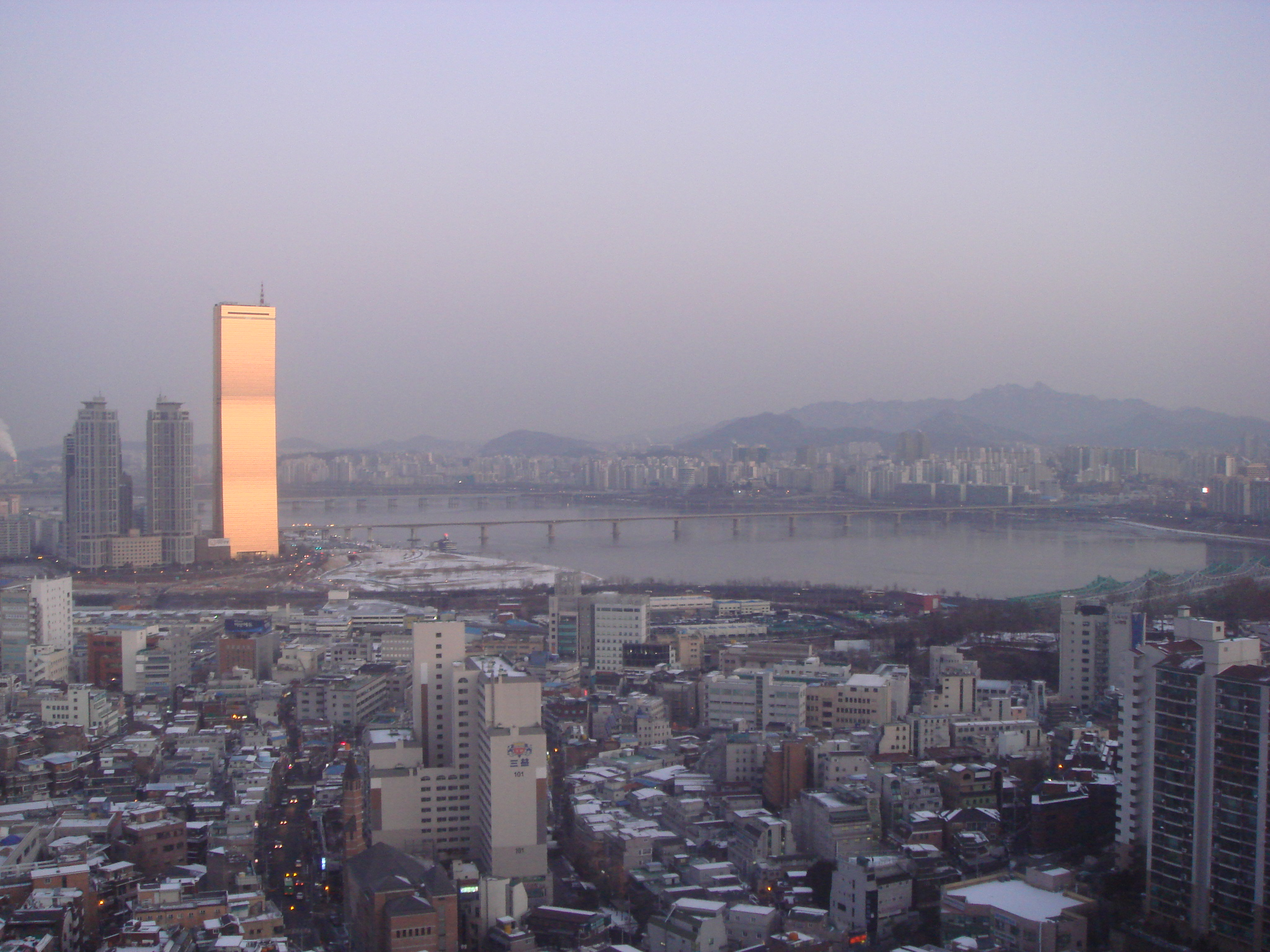 The 63 building just before sunrise on new years day 2010.